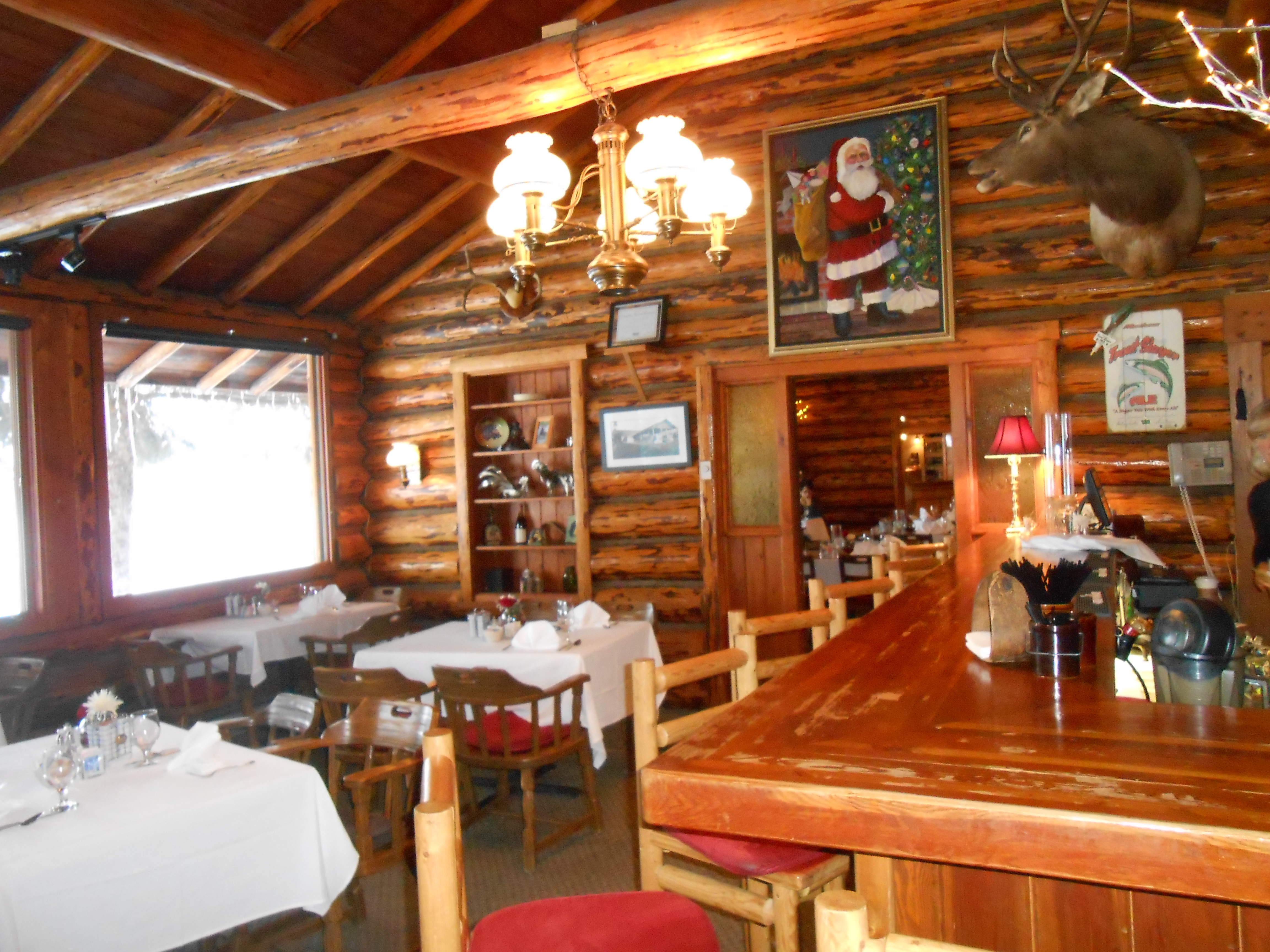 Double Arrow Lodge and Resort, Seeley Lake, Montana, Bar, Xmas 2015